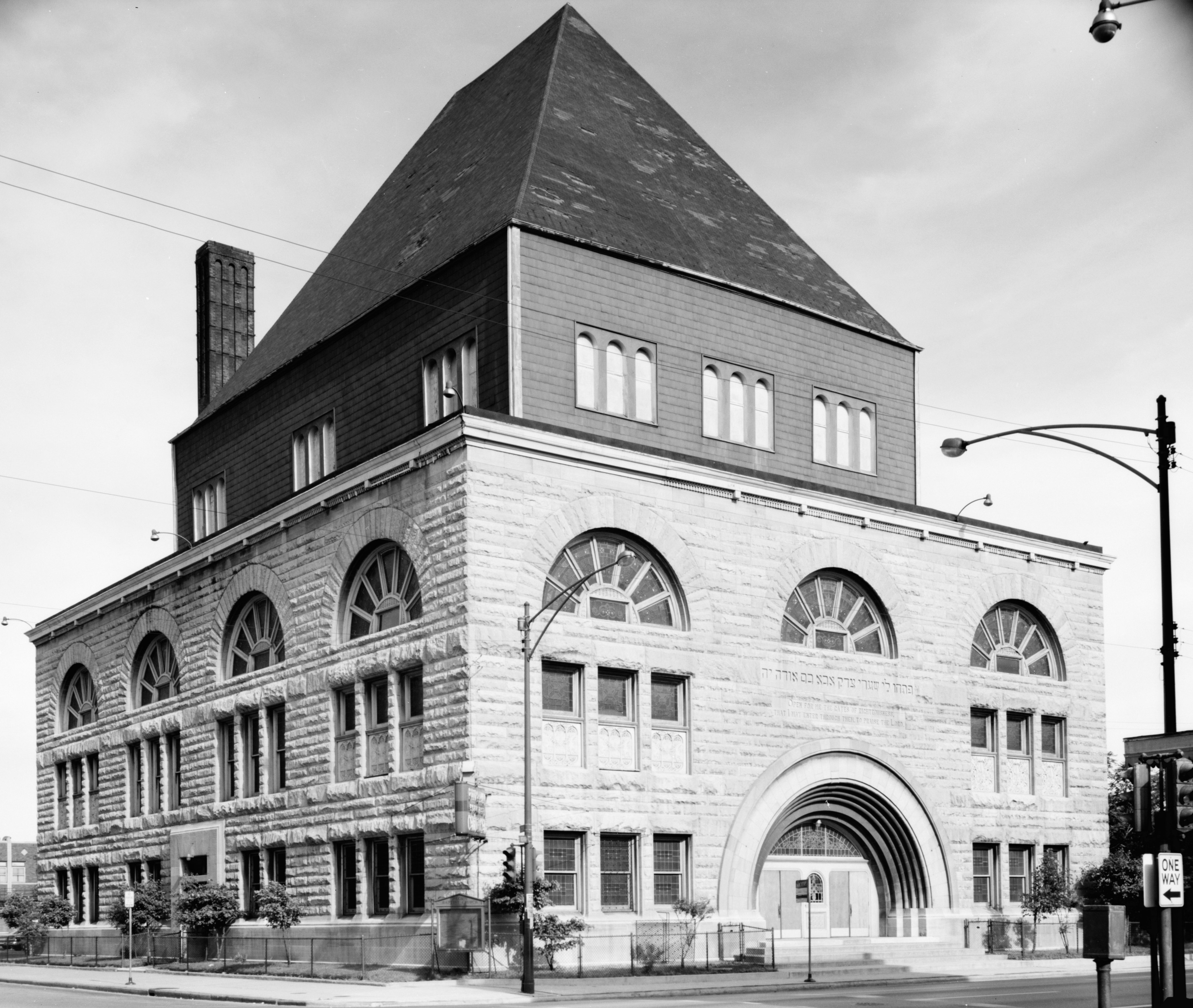 Kehilath Anshe Ma'ariv Synagogue (now Pilgrim Baptist Church), 3301 South Indiana Avenue, Chicago, Cook County, IL - north and west (front) sides.